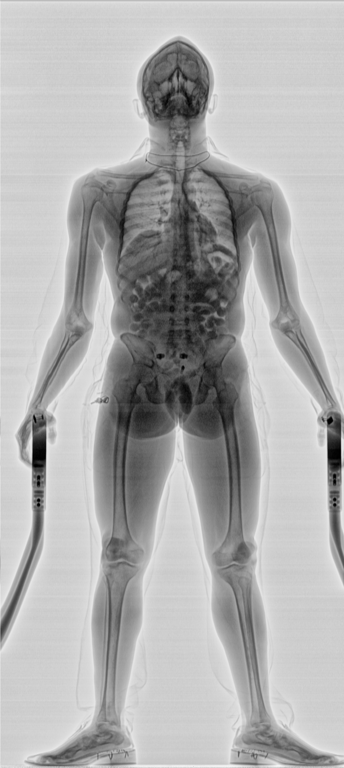 X-ray image taken by a transmission security scanner of a man with drugs in his stomach